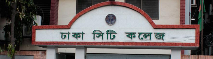 Dhaka City College Front Gate.